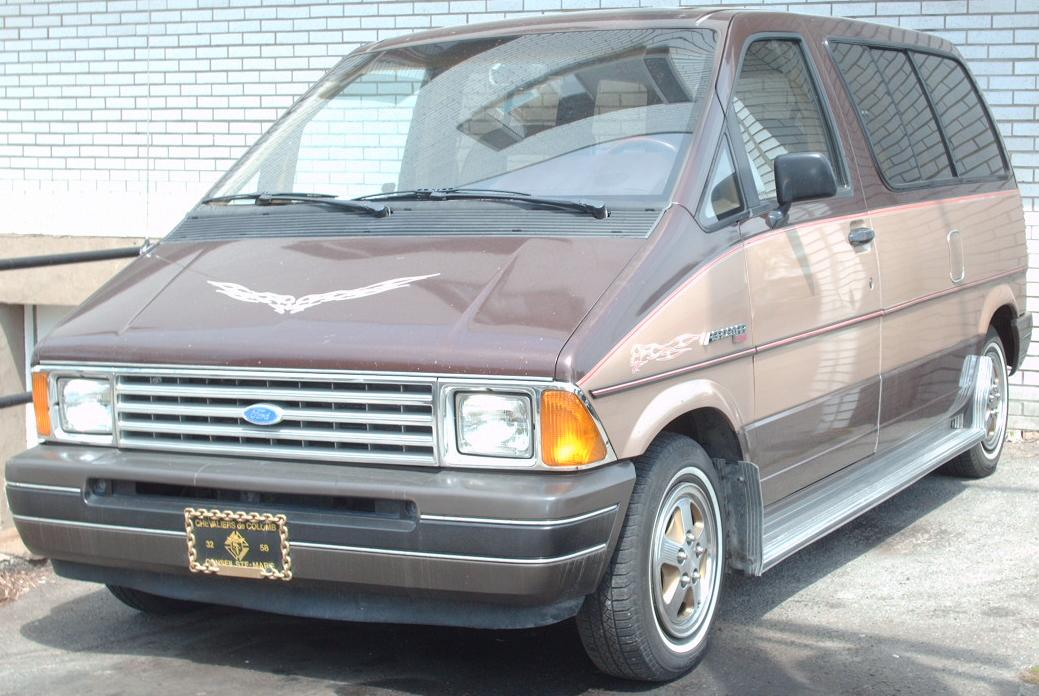 1986-1987 Ford Aerostar photographed in Montreal, Quebec, Canada.